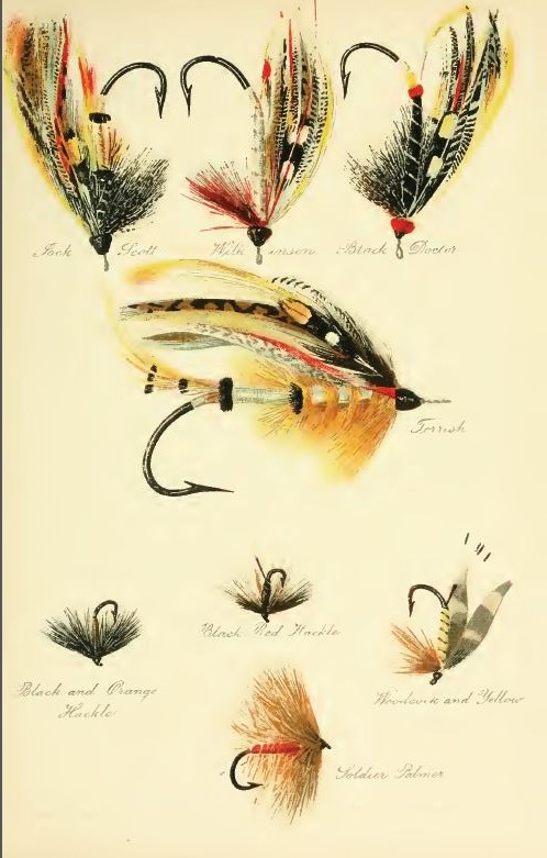 Salmon and Sea Trout Flies from Fly Fishing (1899), Sir Edward Grey, 1920 edition